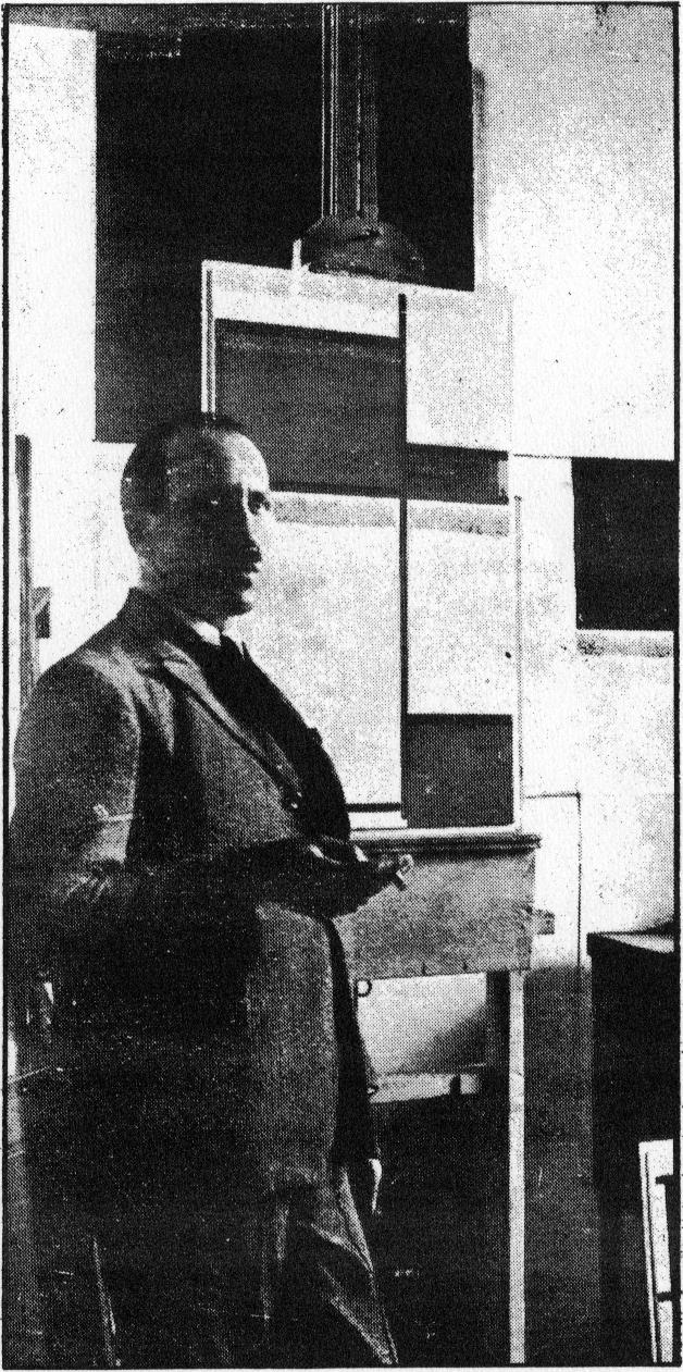 Anonymous. P. Mondrian in his studio in Paris. 1923. Photo. From De Stijl, vol. VI, nr. 6/7 (1924): p. 86.